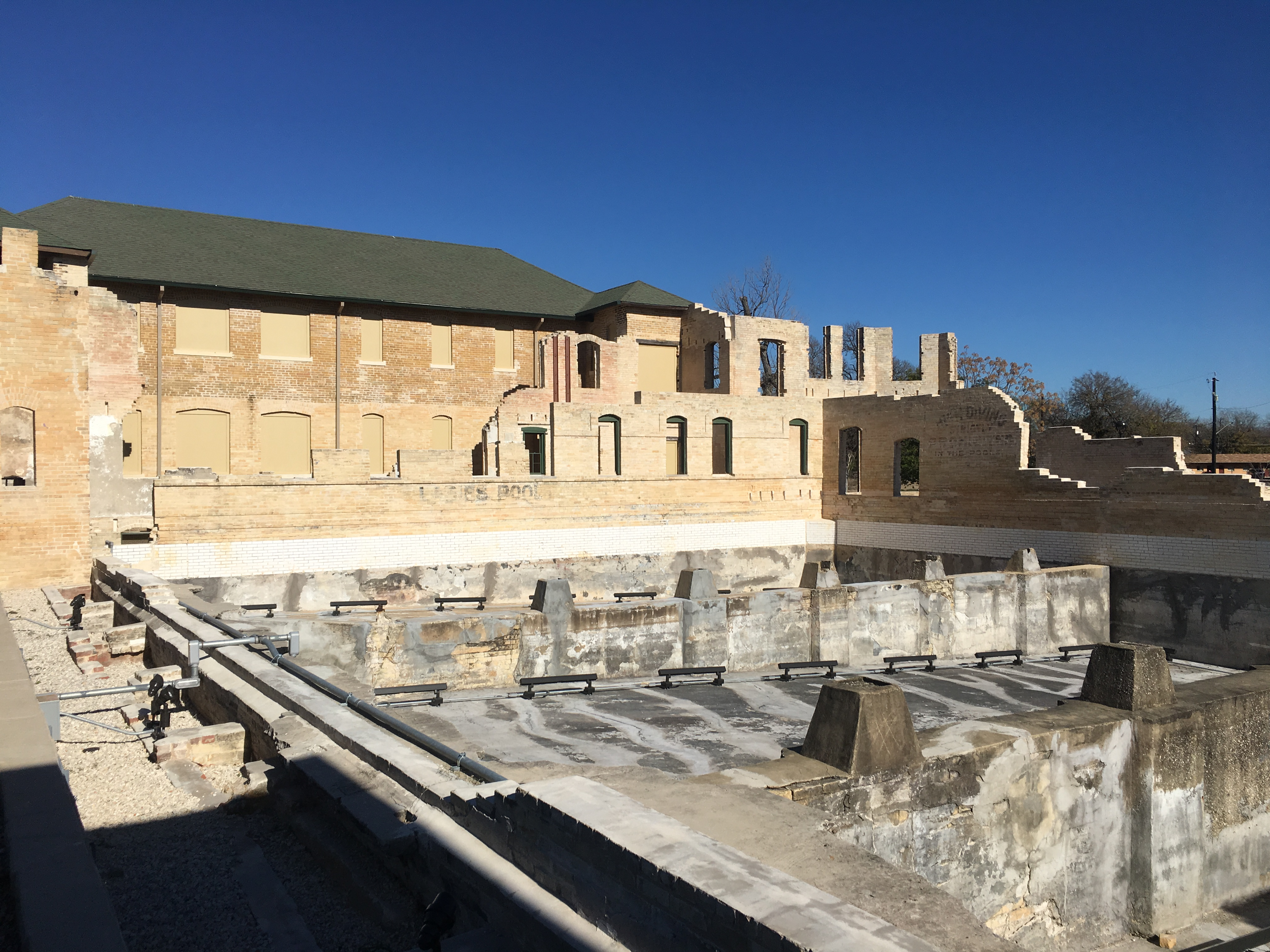 Hot Wells